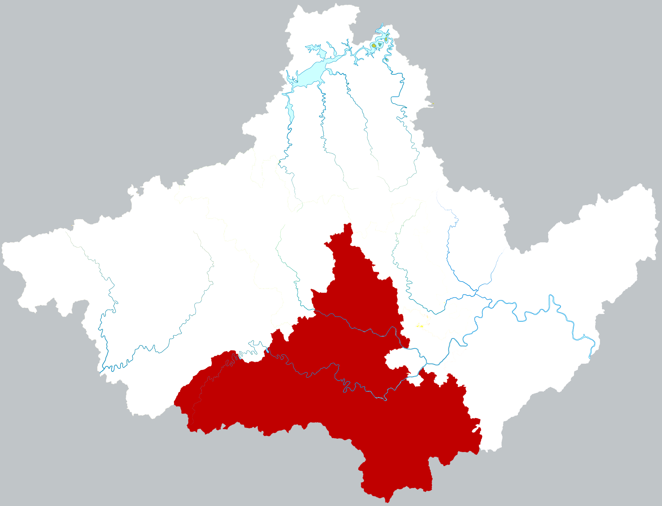 Location of Xiuning county in Huangshan city, China